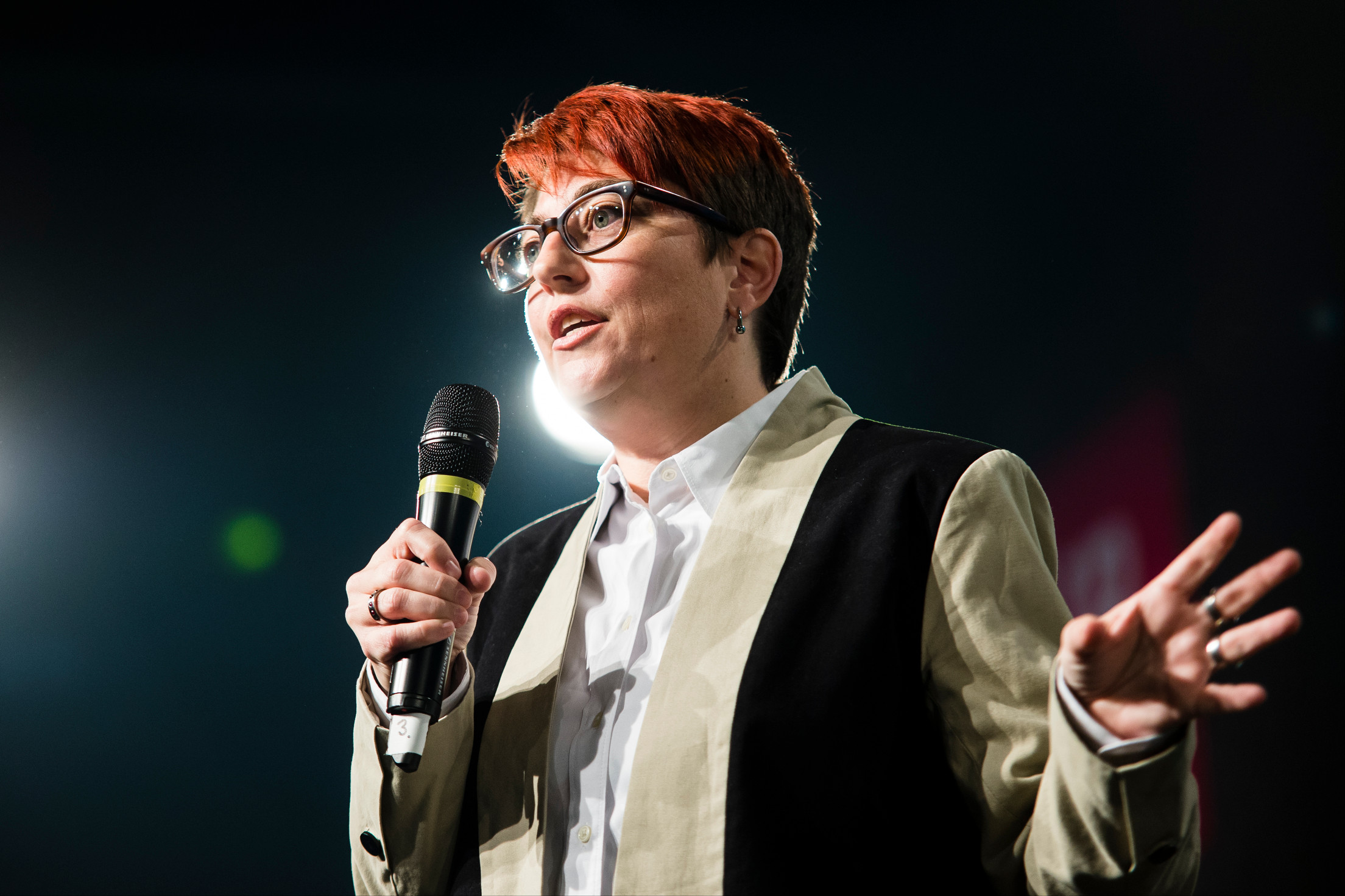 republica 2014 - Tag 1, Stage 1, Annalee Newitz Copyright: republica/Gregor Fischer, 05.05.2014 CC-BY-SA 2.0